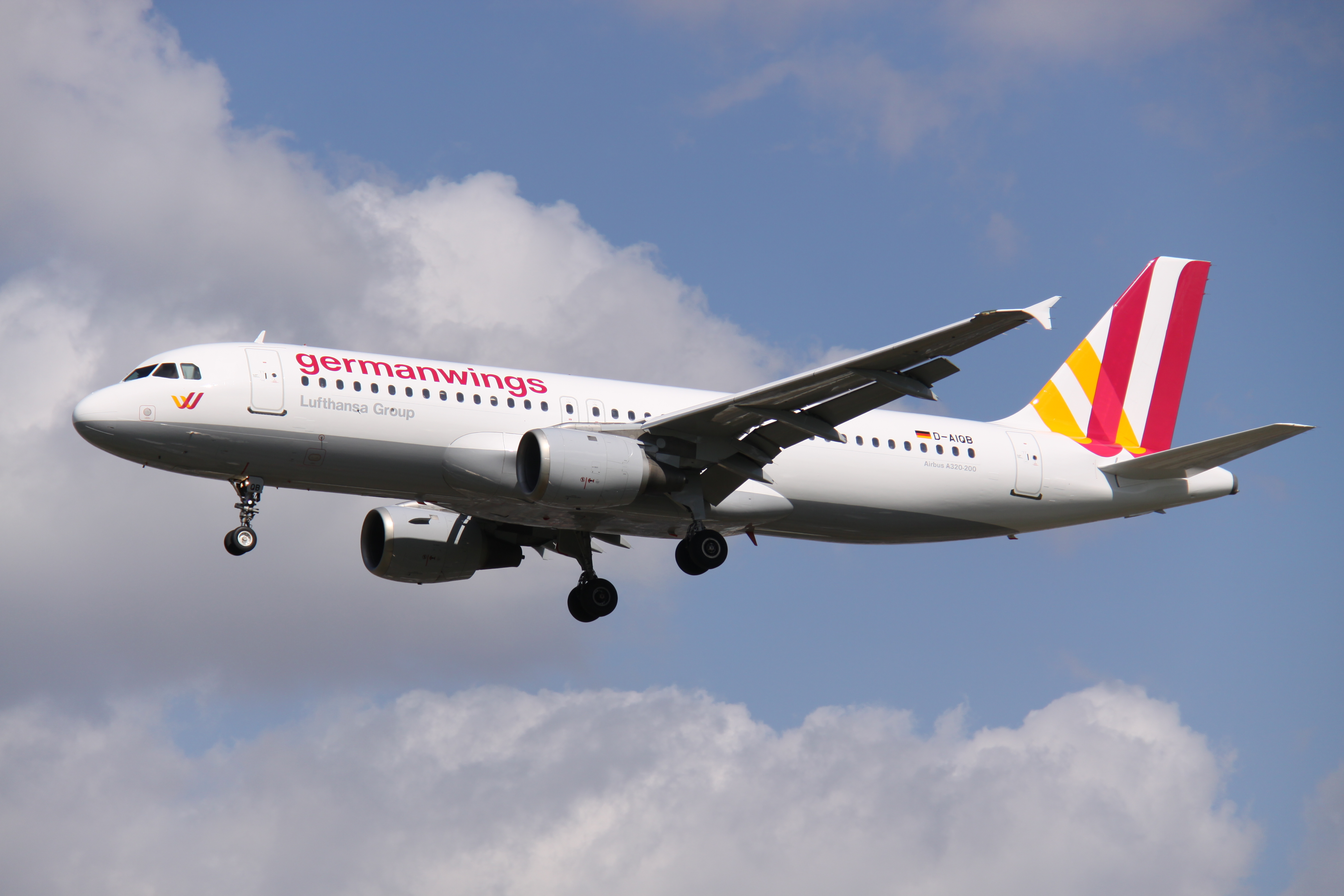 At London Heathrow